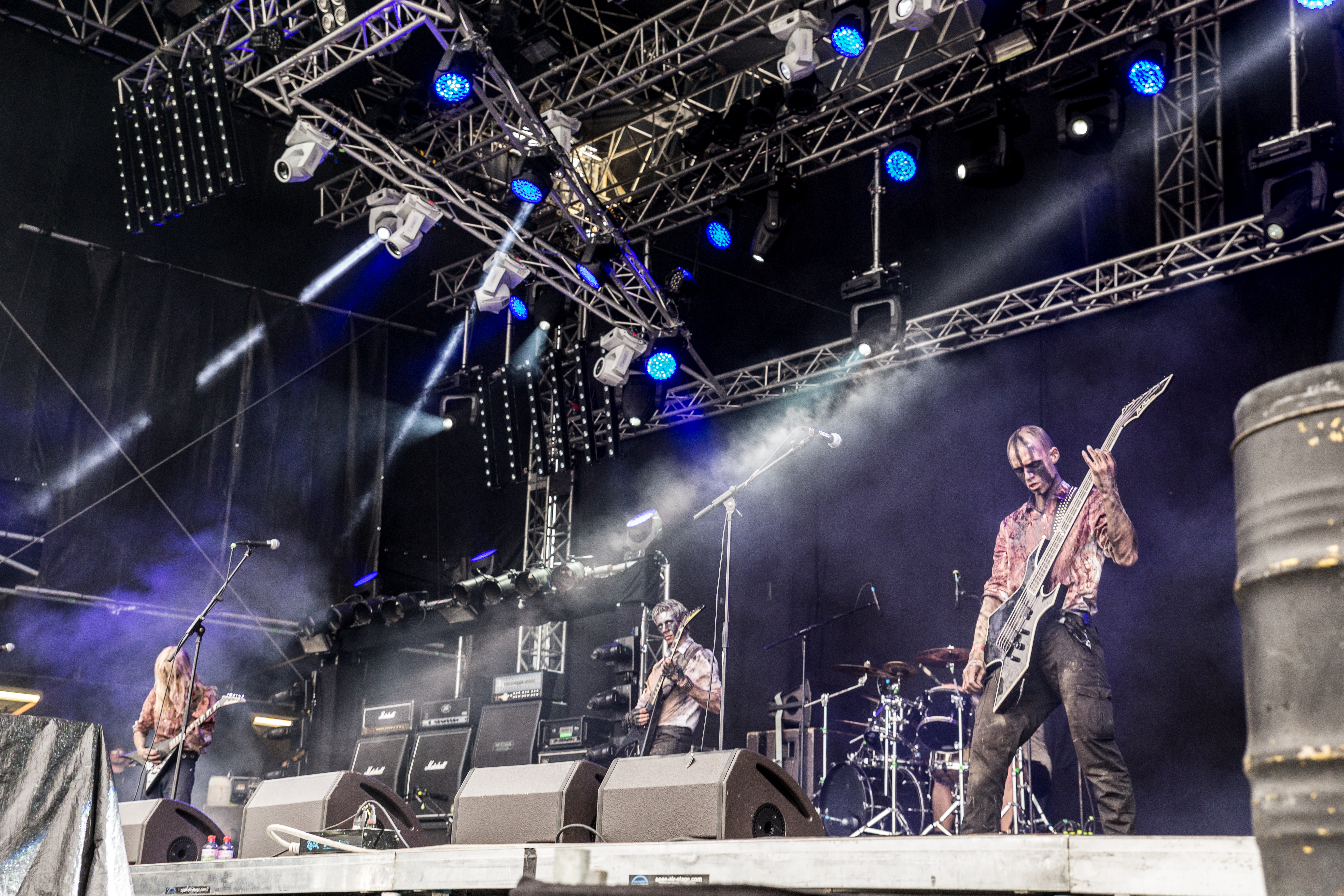 The Icelandic black metal band Misþyrming at the Party.San Metal Open Air 2016 in Obermehler-Schlotheim/Germany.